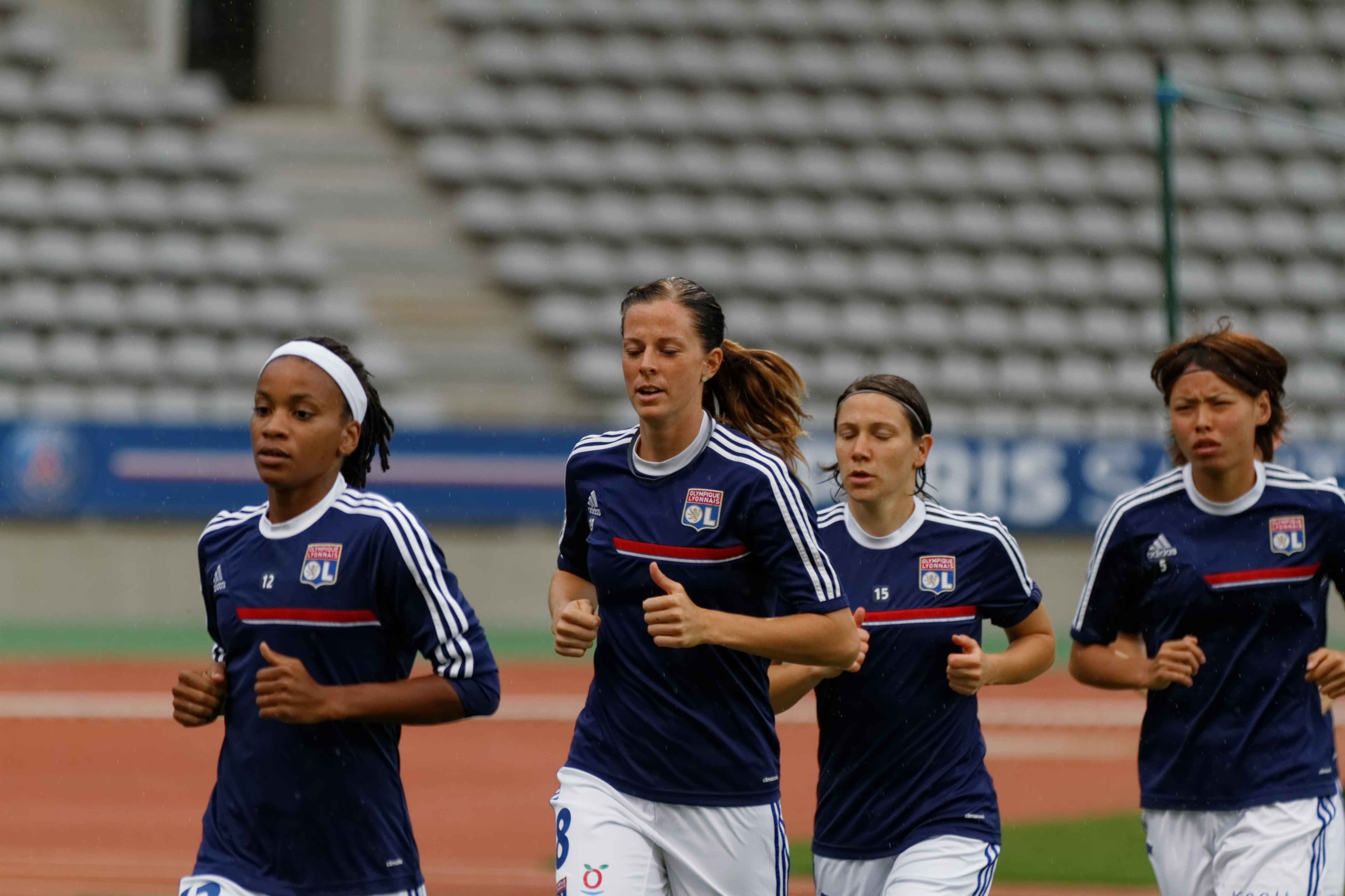 PSG-Lyon, September 29th, 2013.